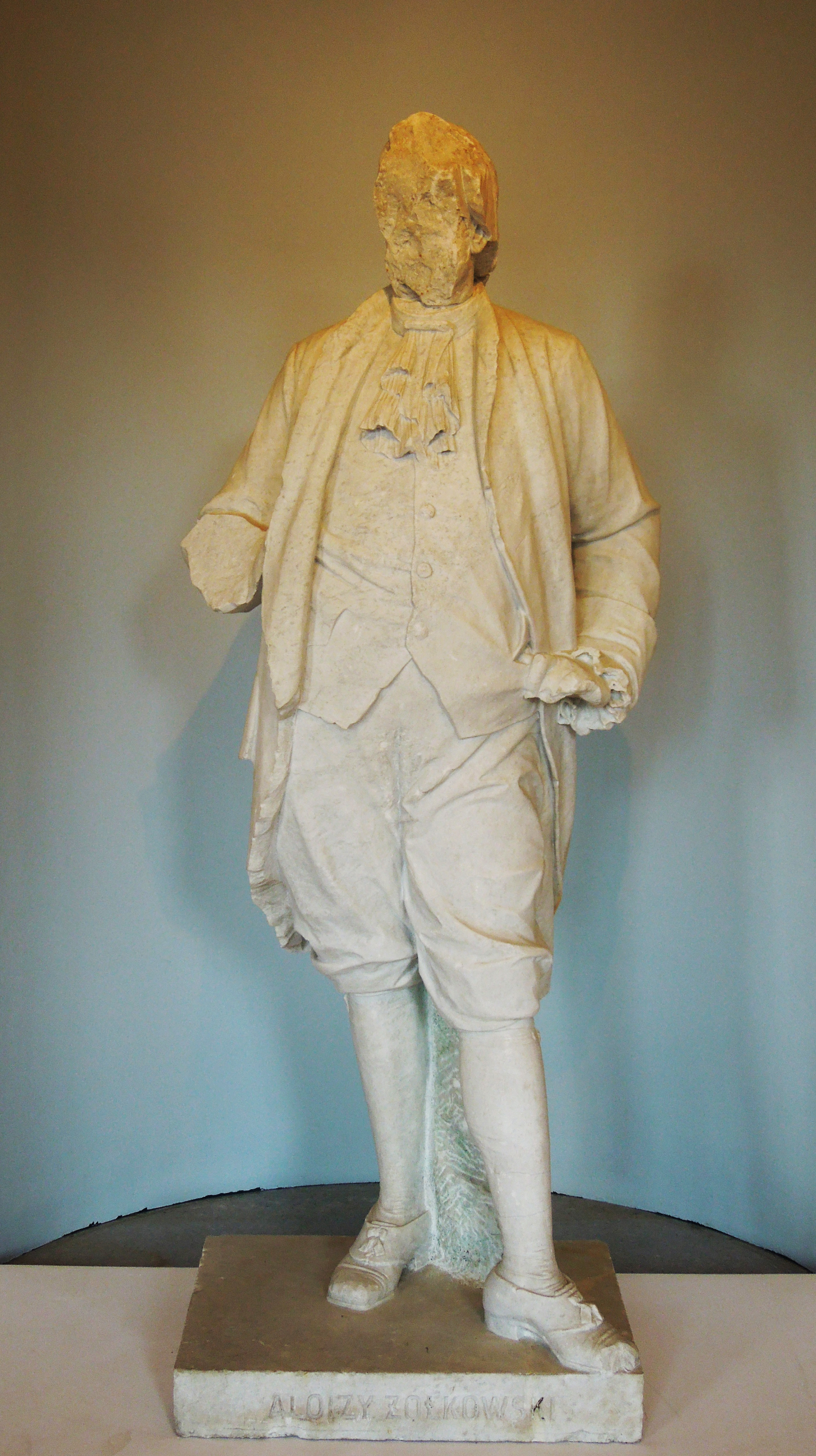 Jan Woydyga - Statue of Alojzy Gonzaga Żółkowski